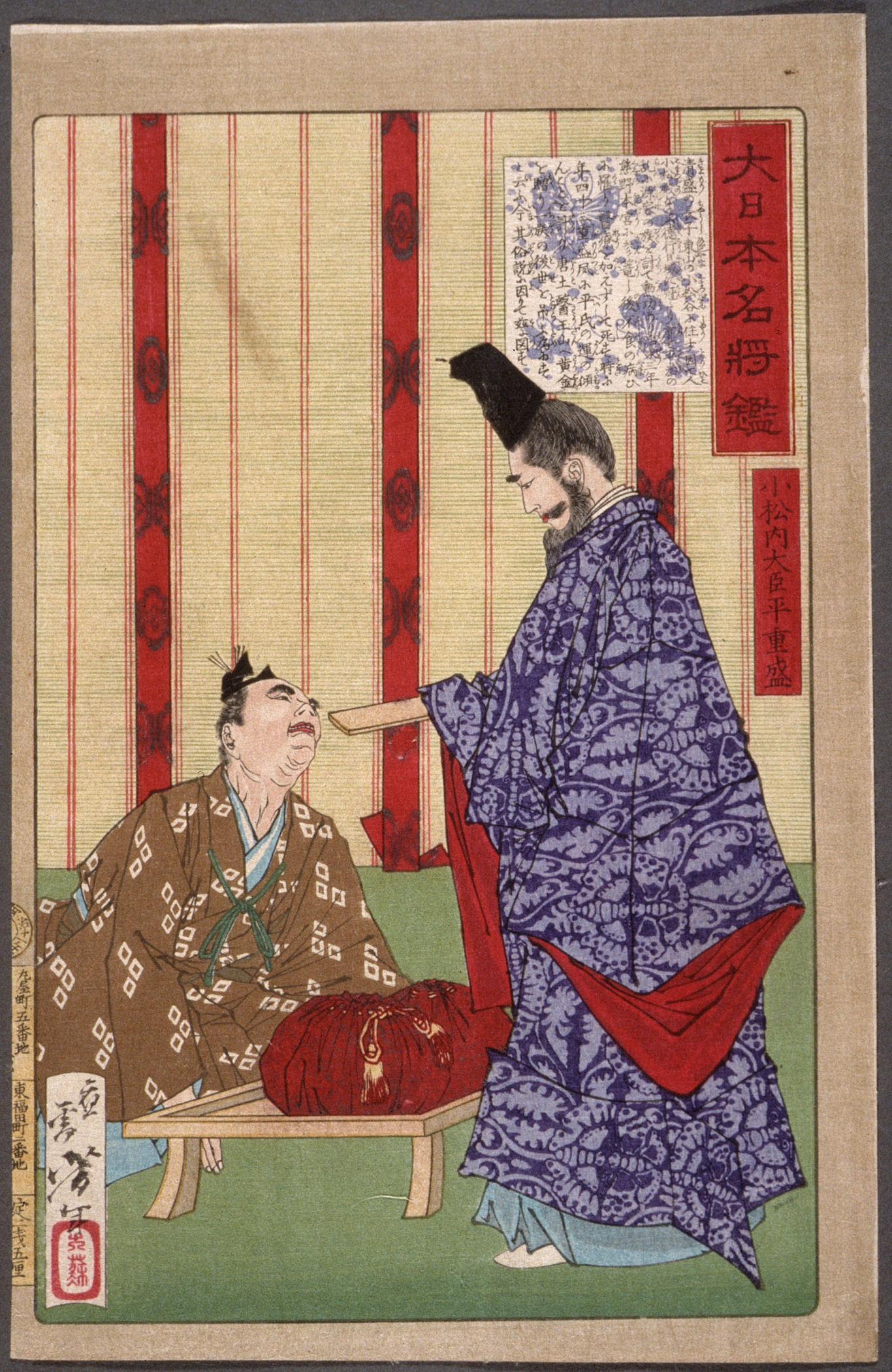 Japan, 10/1878 Series: A Mirror of Great Warriors of Japan Prints; woodcuts Color woodblock print Herbert R. Cole Collection (M.84.31.261) Japanese Art